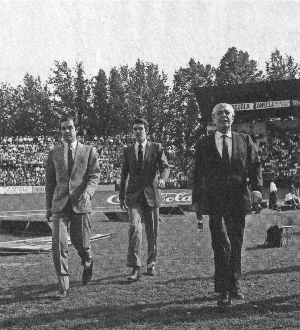 Mantua, Danilo Martelli Stadium, June 1, 1967. AC Mantova — Inter Milan 1-0, Italy Championship 1966–67 Serie A. From left to right: Inter Milan's board members Gian Marco, Massimo and Angelo Moratti take to the ground.